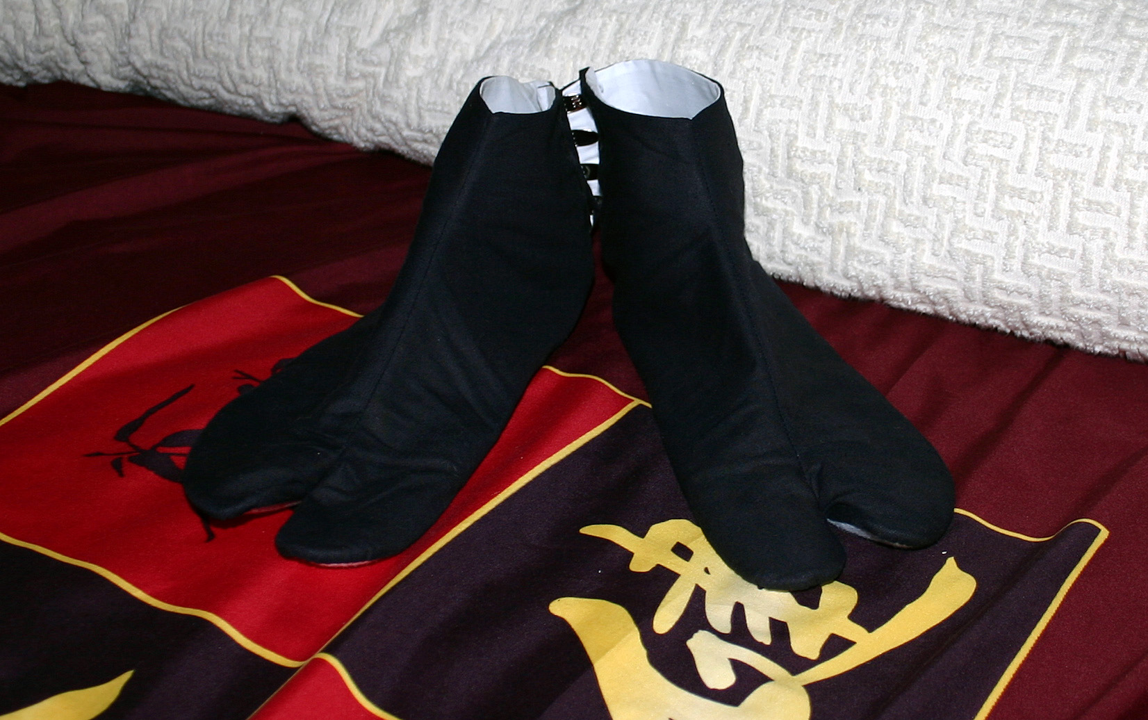 A pair of black Japanese tabi socks. Photograph taken by me. 'scuse the background.